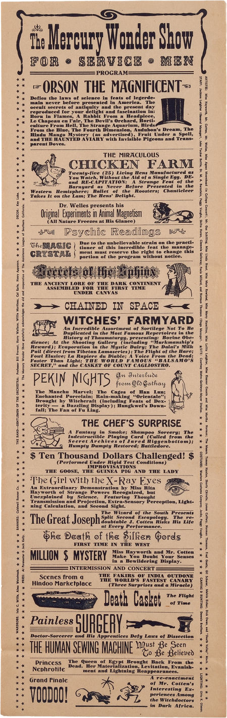 Promotional herald for The Mercury Wonder Show